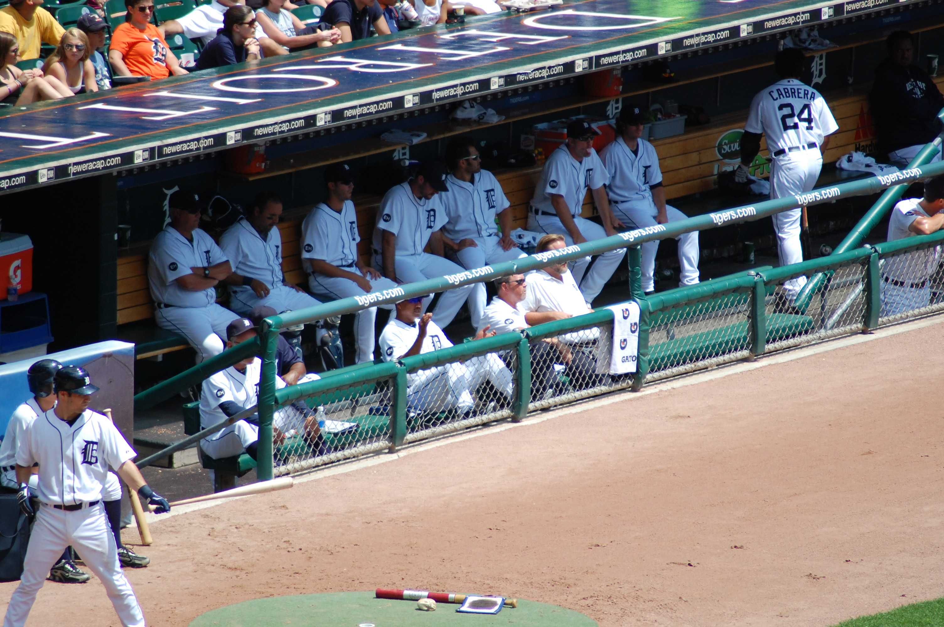 The dugout of theen:Detroit Tigers